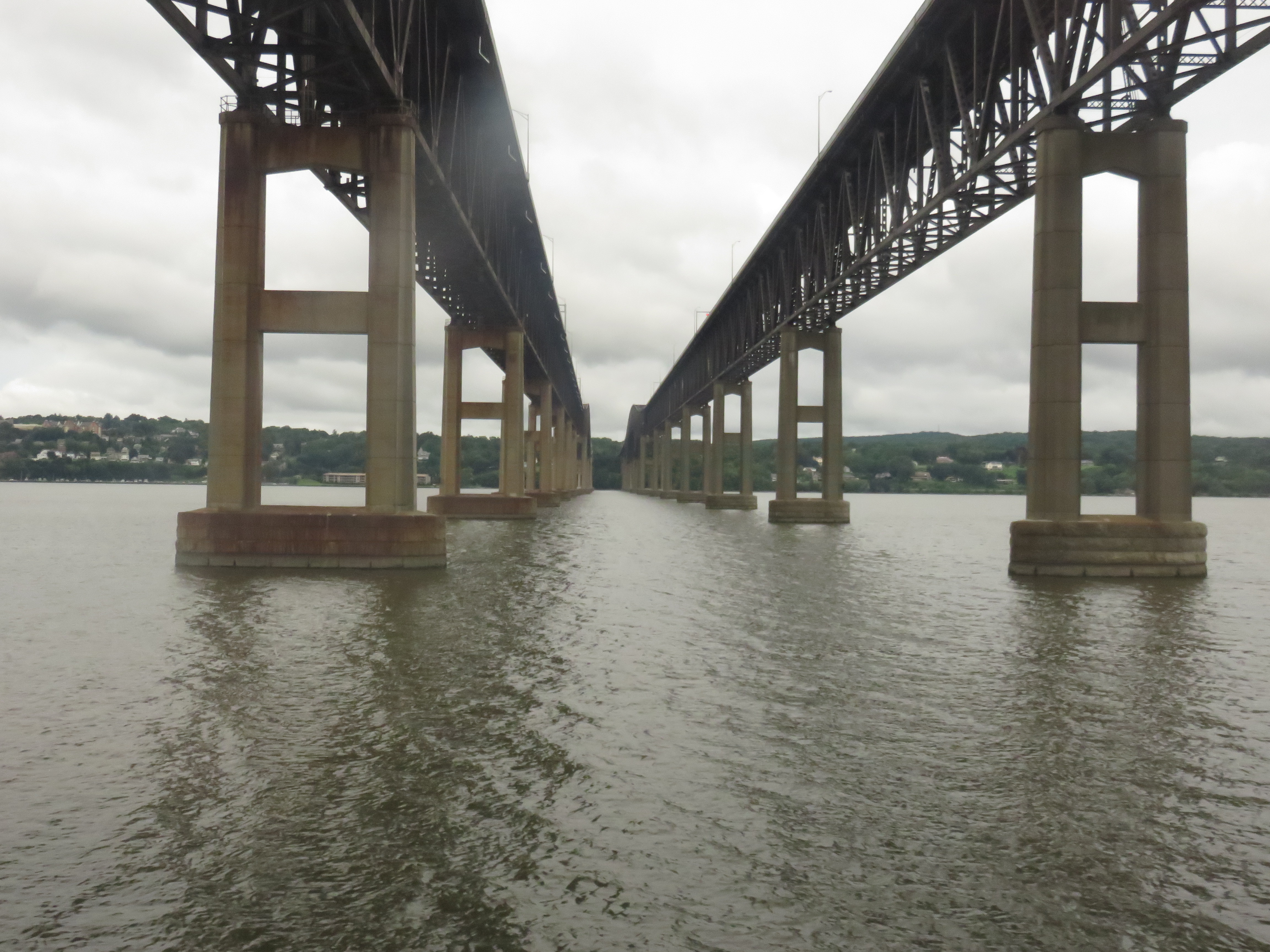 Underside of the Newburgh–Beacon Bridge from the Adirondack Amtrak train in 2017